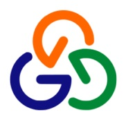 Nomi Ishikawa chapter